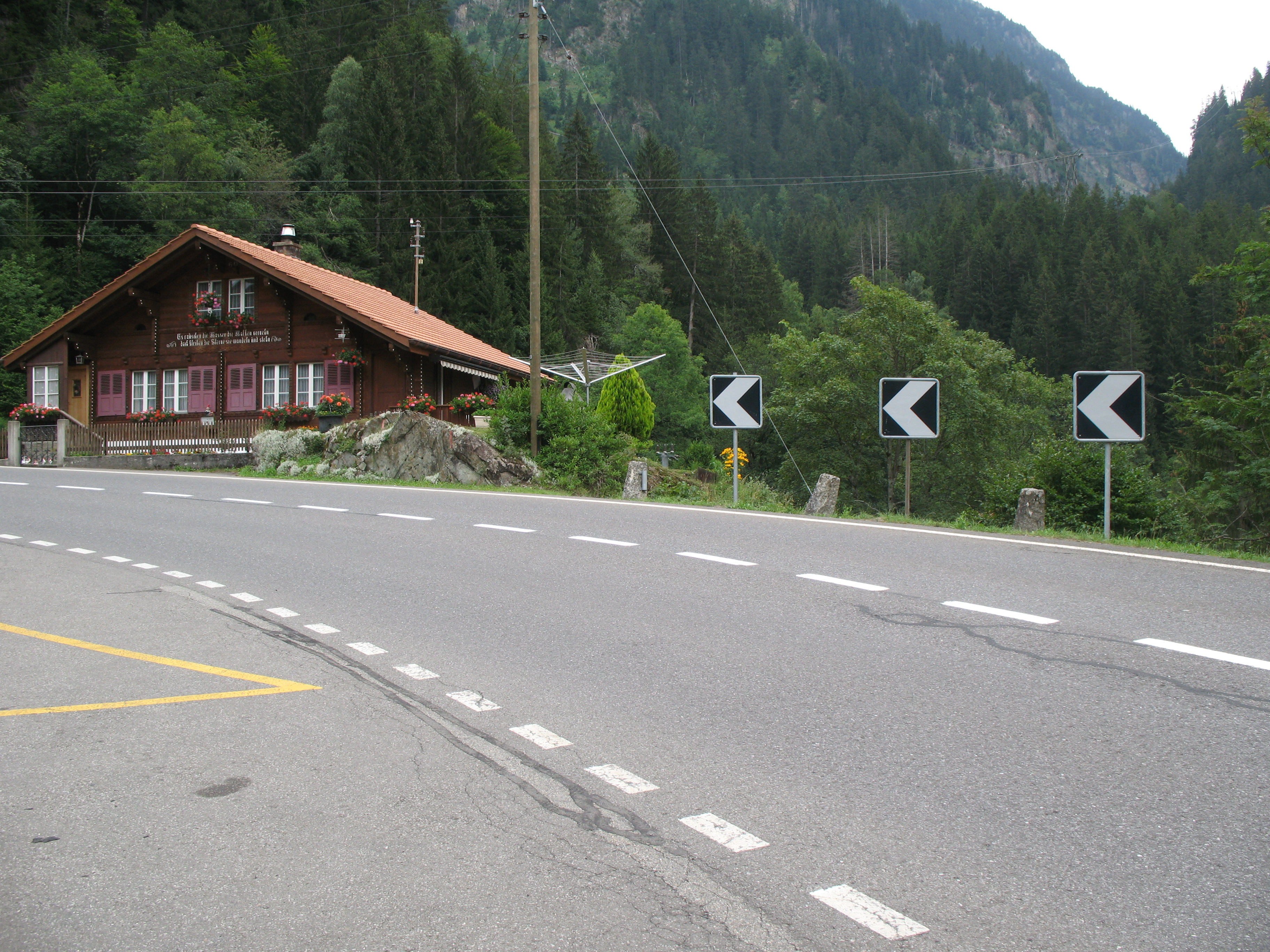 View from the PostBus stop for the Triftbahn, Gadmen, Switzerland